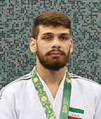 Judo at the 2017 Islamic Solidarity Games